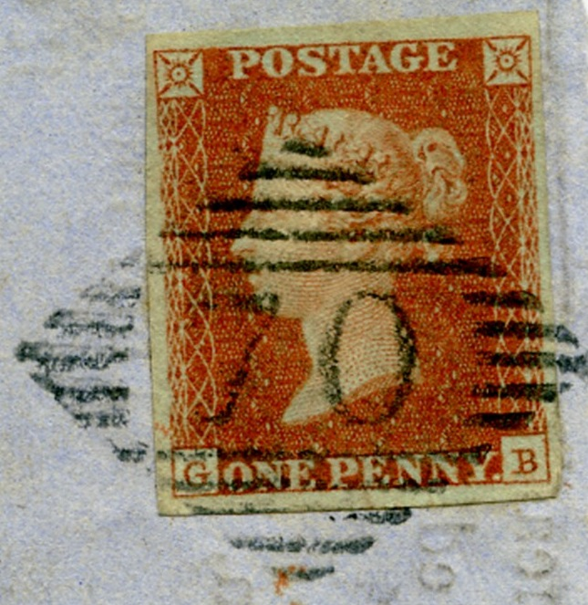 Numeral postmark cancellation number 70 assigned to Boyle, Roscommon, Ireland, on 1d red postage stamp mailed in 1850 (from Boyle to London per other postmarks on full cover).